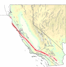 A schematic of the San Andreas Fault along the coast of northern, central, and southern California.